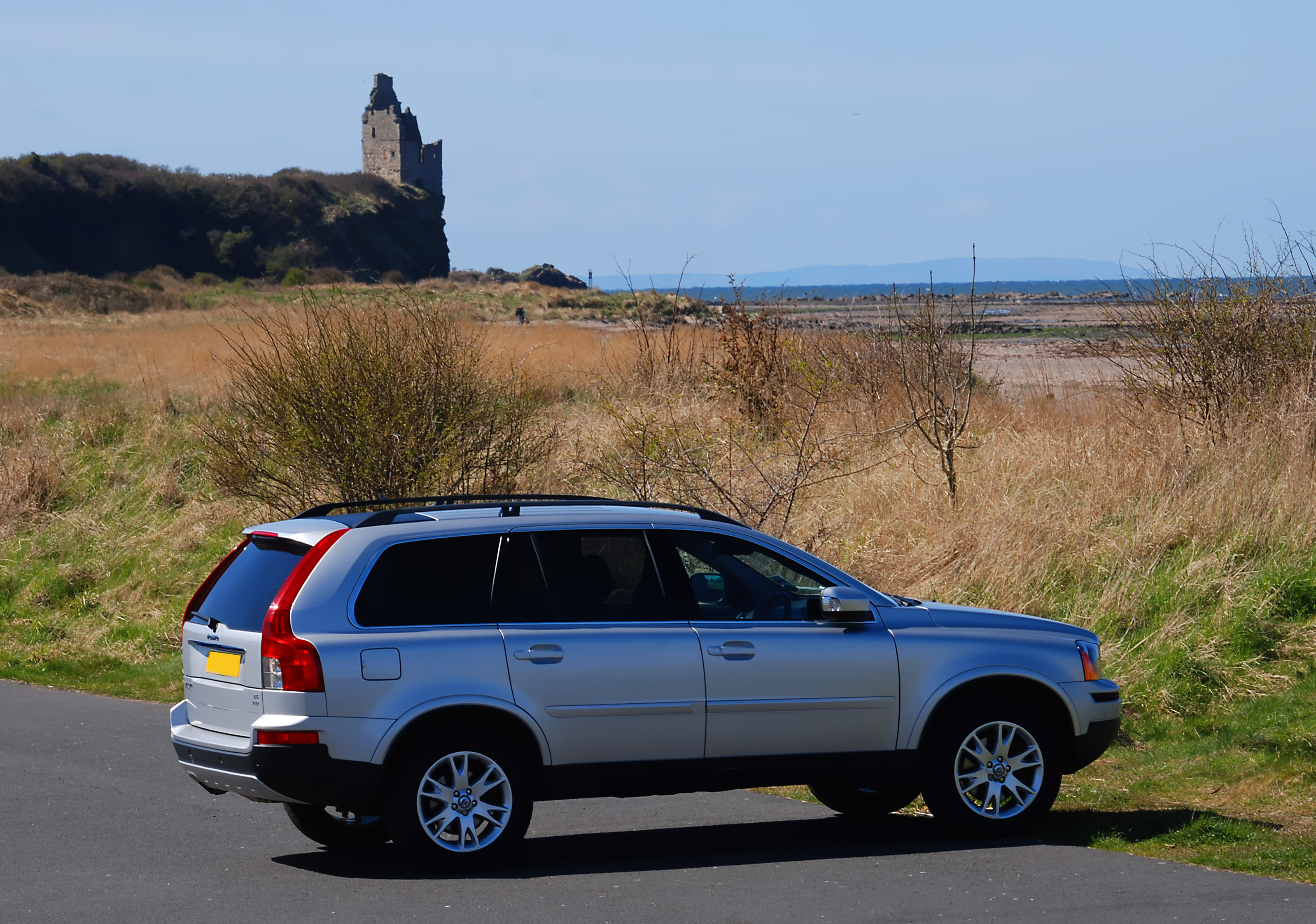 Volvo XC 90